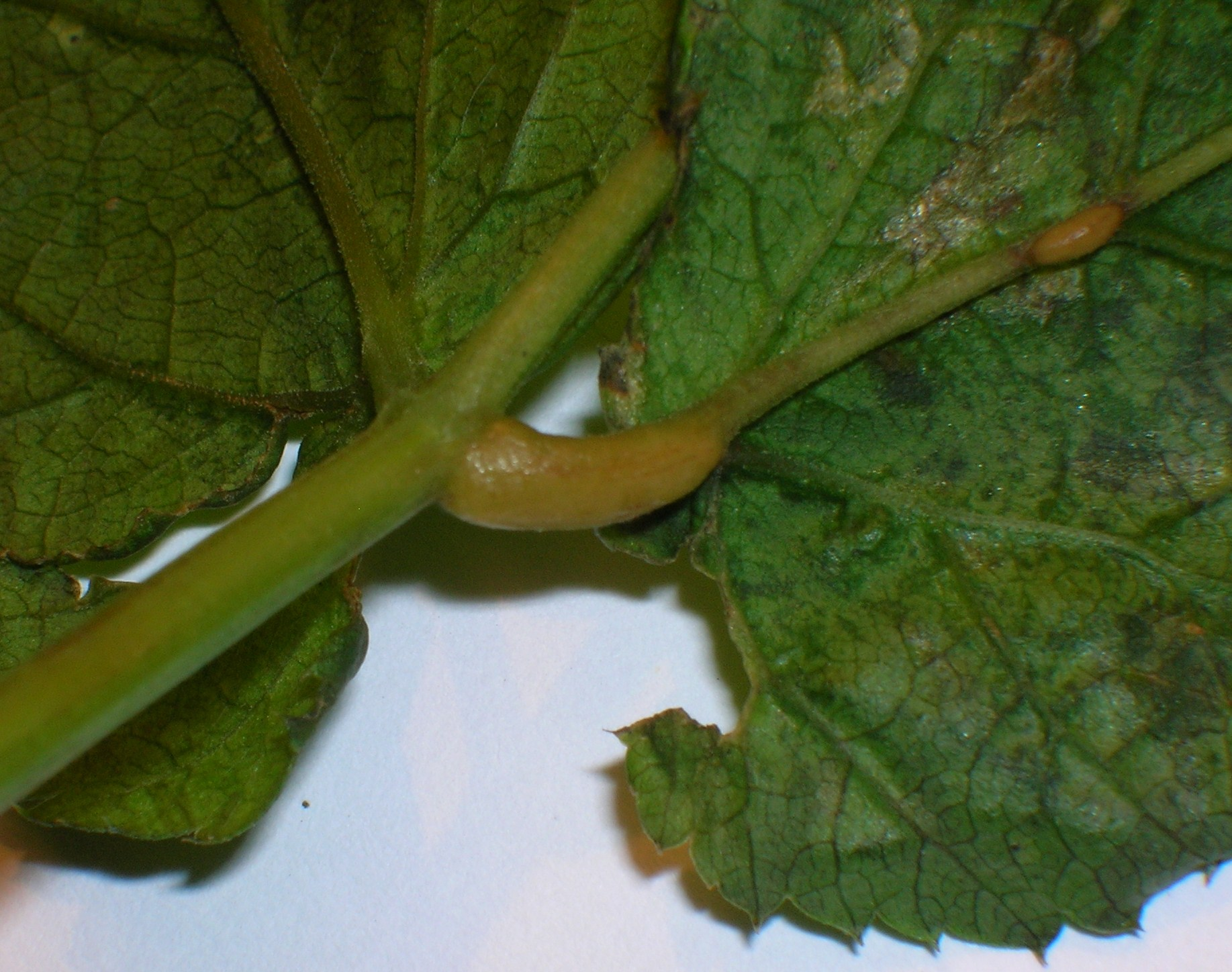 Protomyces macrosporus gall as seen on the lower surface of Aegopodium podagraria. Spier's, Beith, Ayrshire, Scotland.